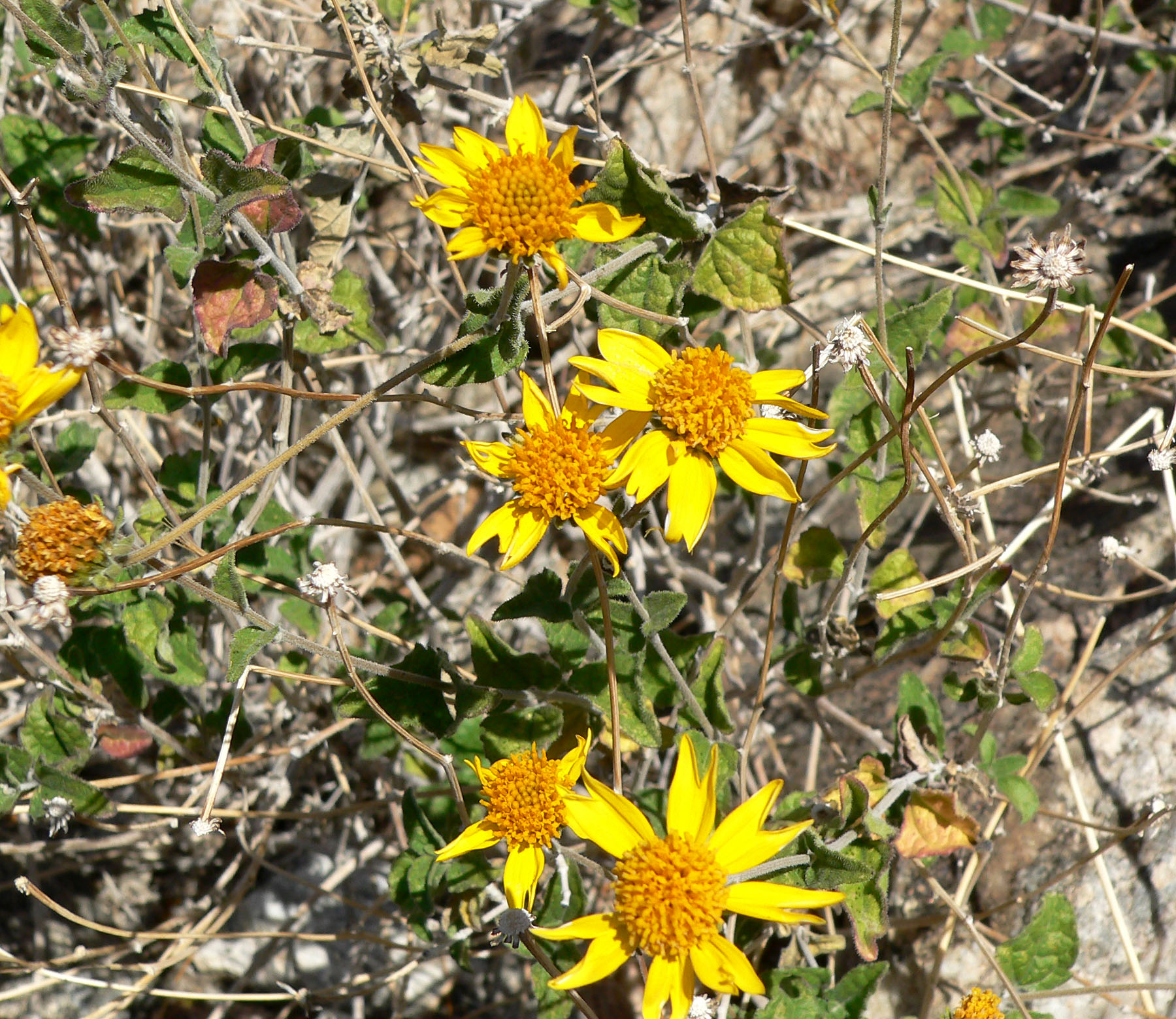 Bahiopsis parishii on Mount Wilson (Arizona), northwestern Arizona